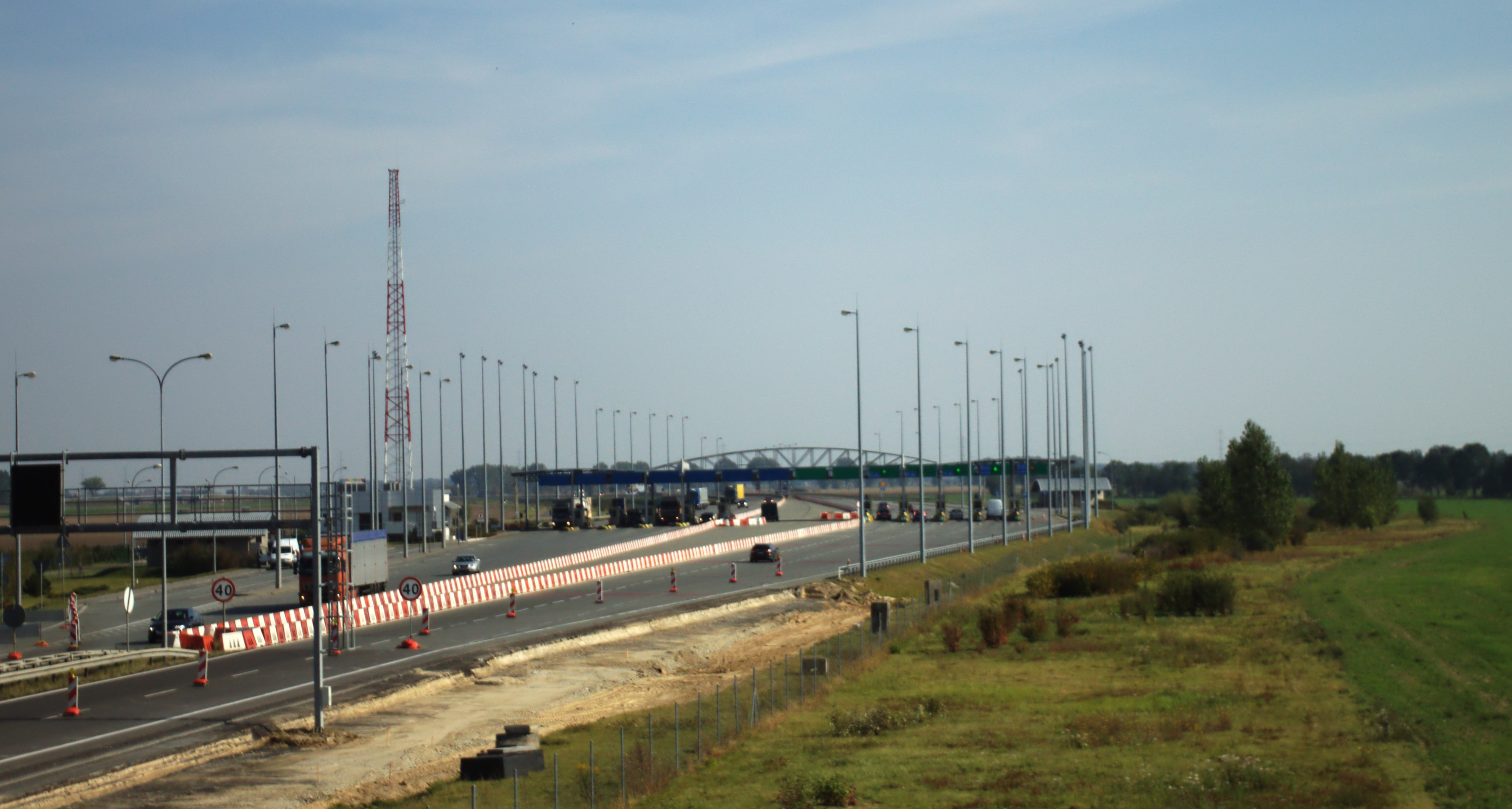 A toll check station at the A2 highway near Nagradowice, Greater Polish Voivodeship, Poland